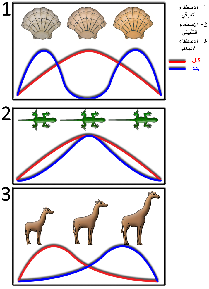 A chart showing three types of selection.